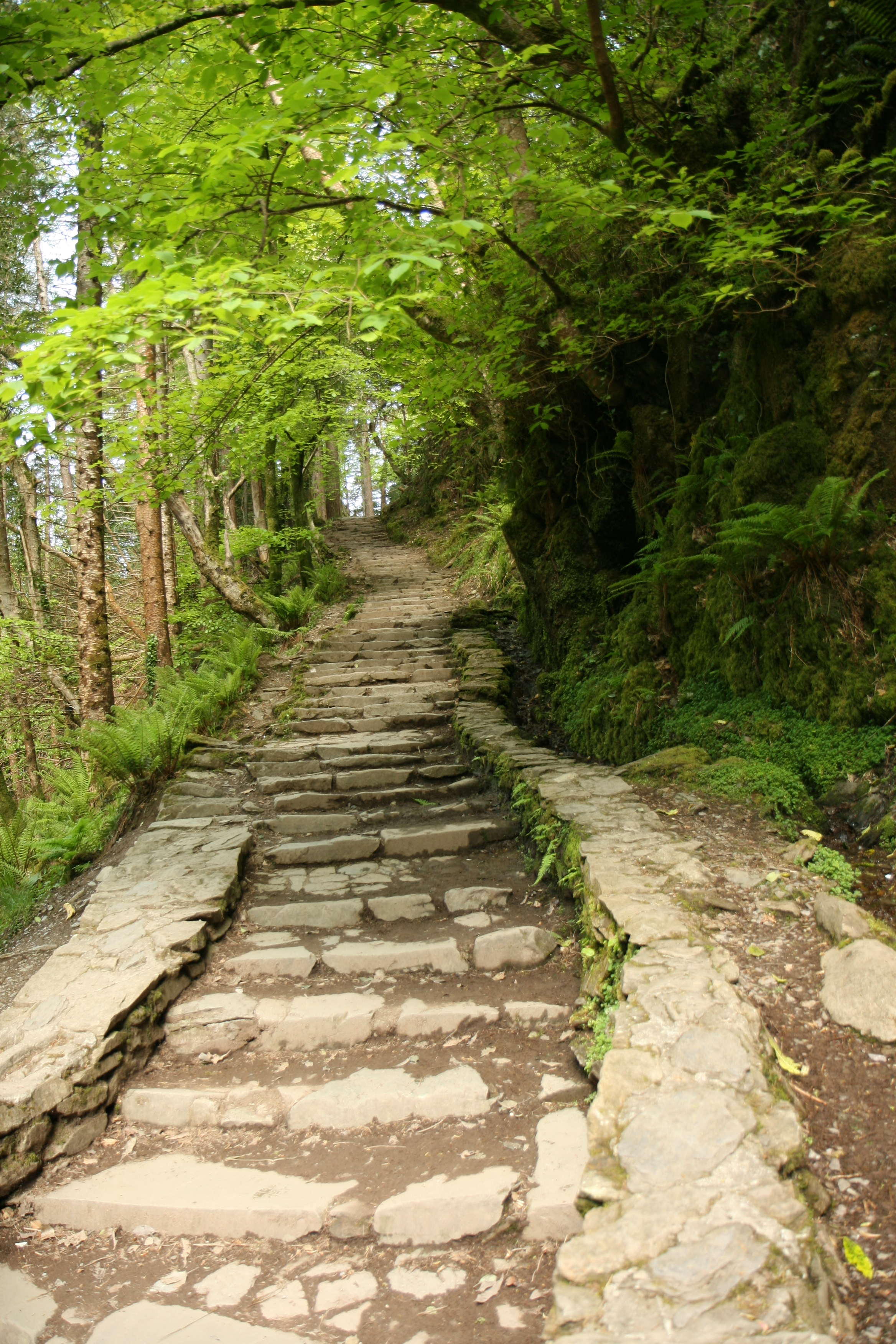 Pathway up the Torc Waterfall, Killarney, Kerry, Ireland